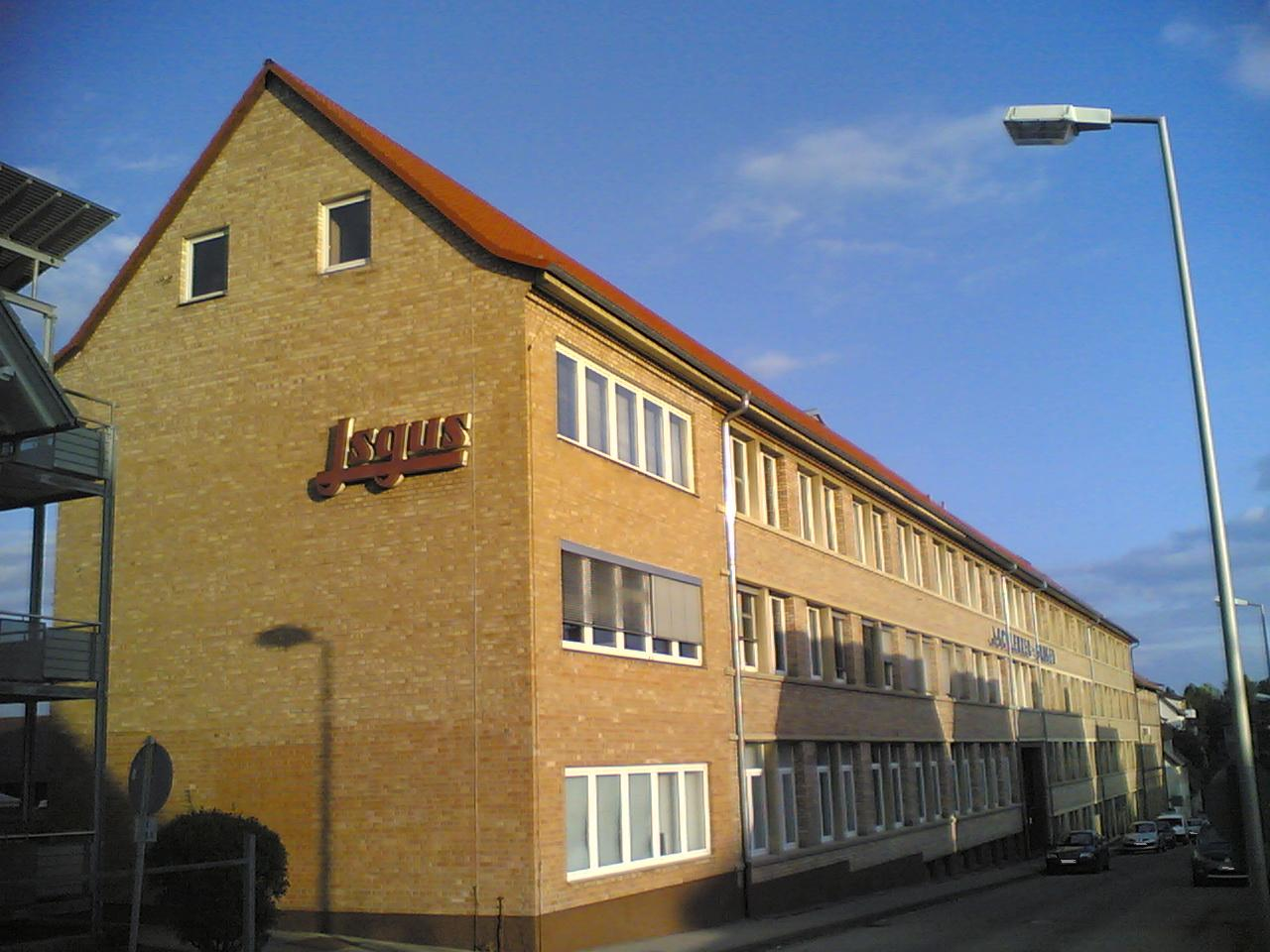 ISGUS GmbH in Villingen-Schwenningen, Germany